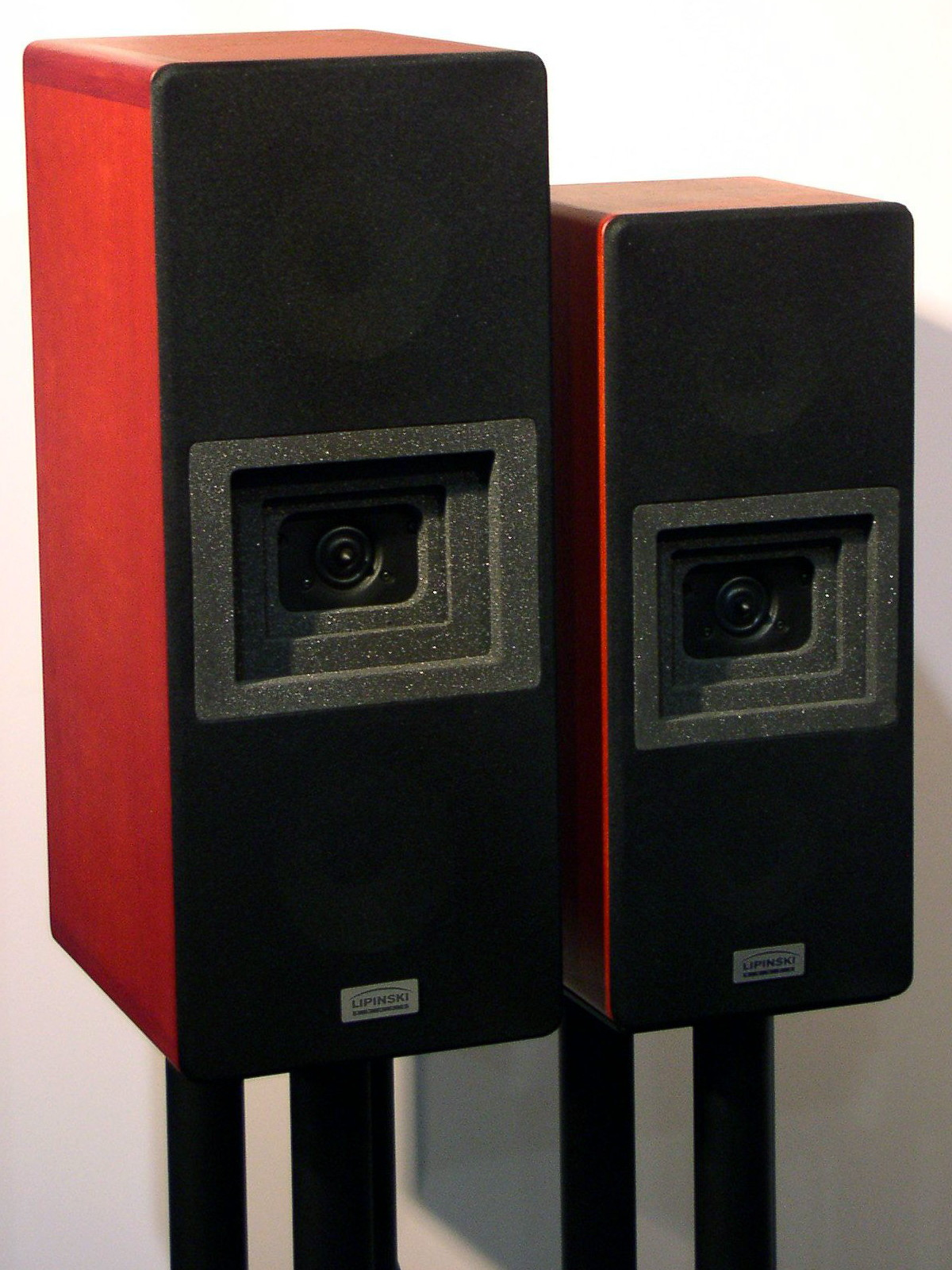 Lipinski Sound -- two loudspeakers on exhibit at a high-end audio show